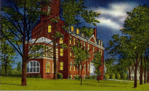 Martha Jefferson Hospital, 1915.